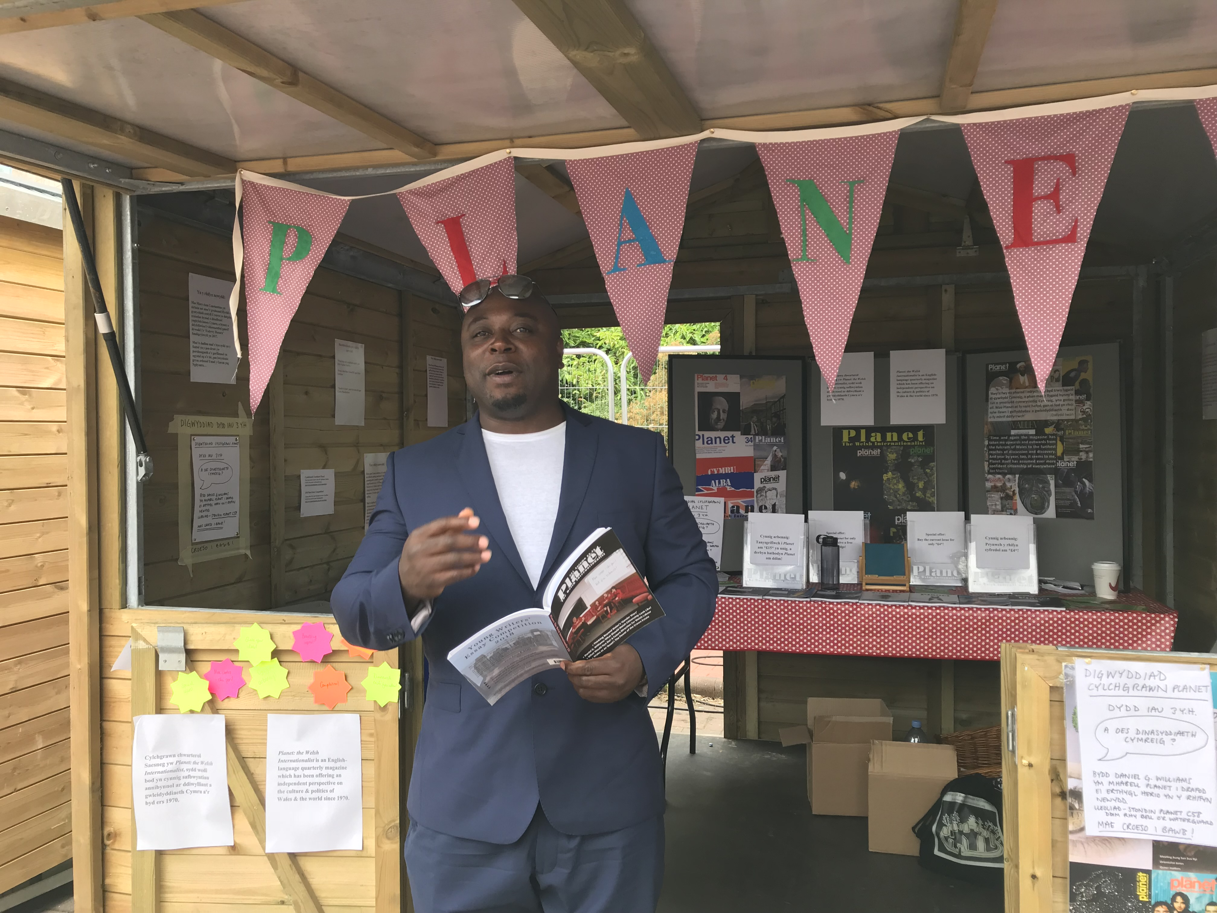 The author Eric Ngalle Charles speaking at the Planet magazine stand at the National Eisteddfod of Wales in Cardiff